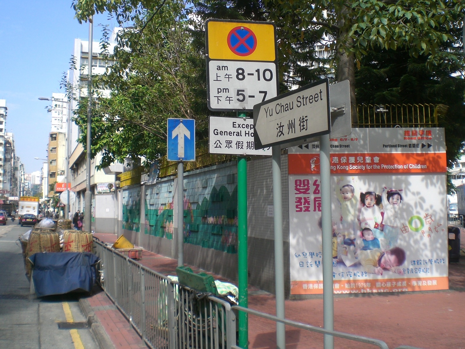 汝州街